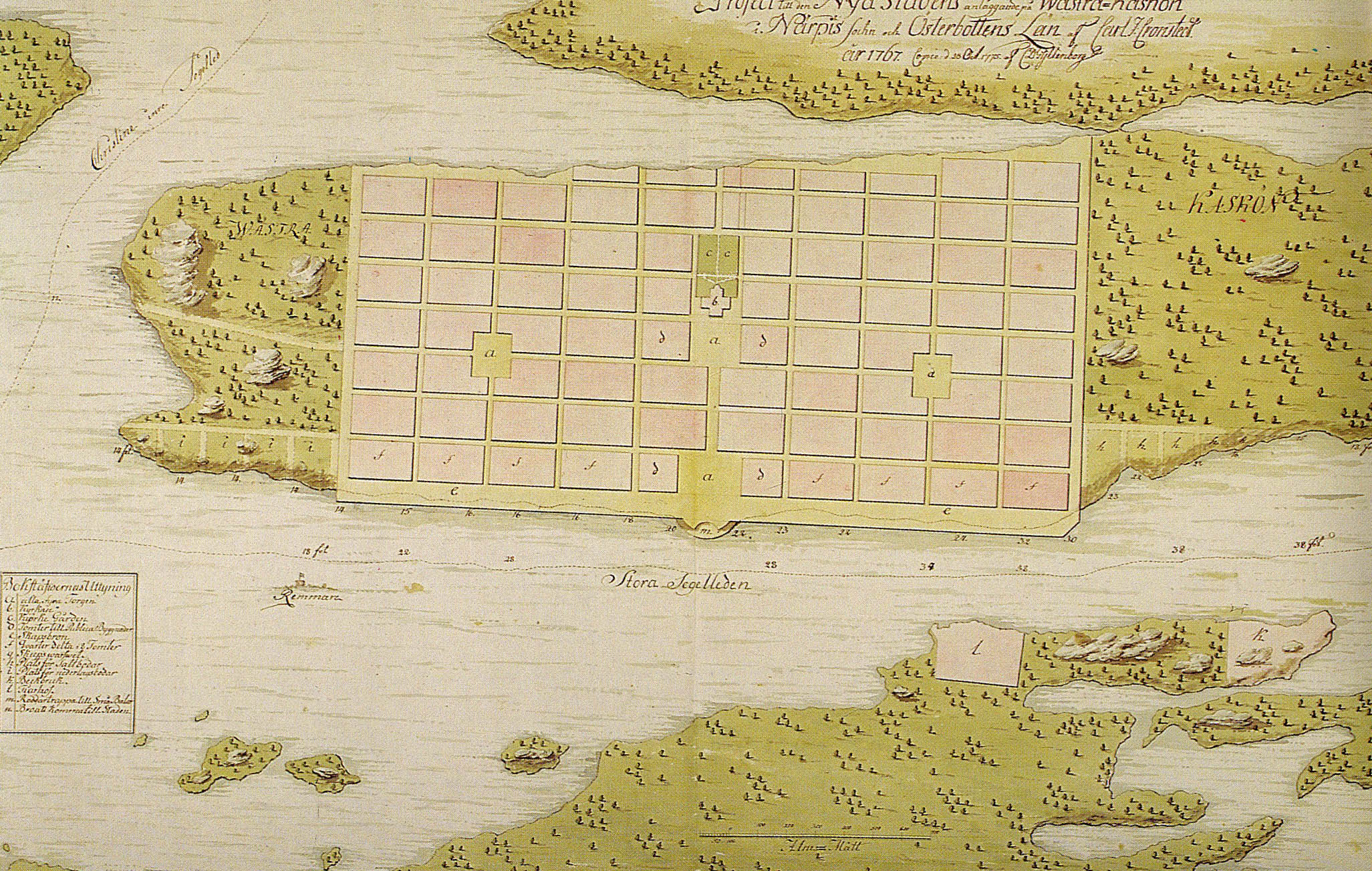 Plan for the Finnish town Kaskinen from 1767